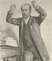 Former United States Representative from Mississippi John Mills Allen.